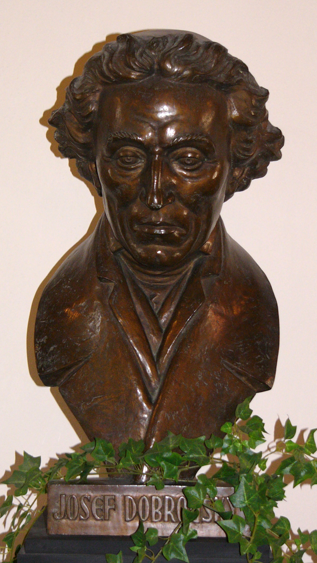 Bust of Josef Dobrovský in the library of Hradisko Monastery in Olomouc (Czech Republic).